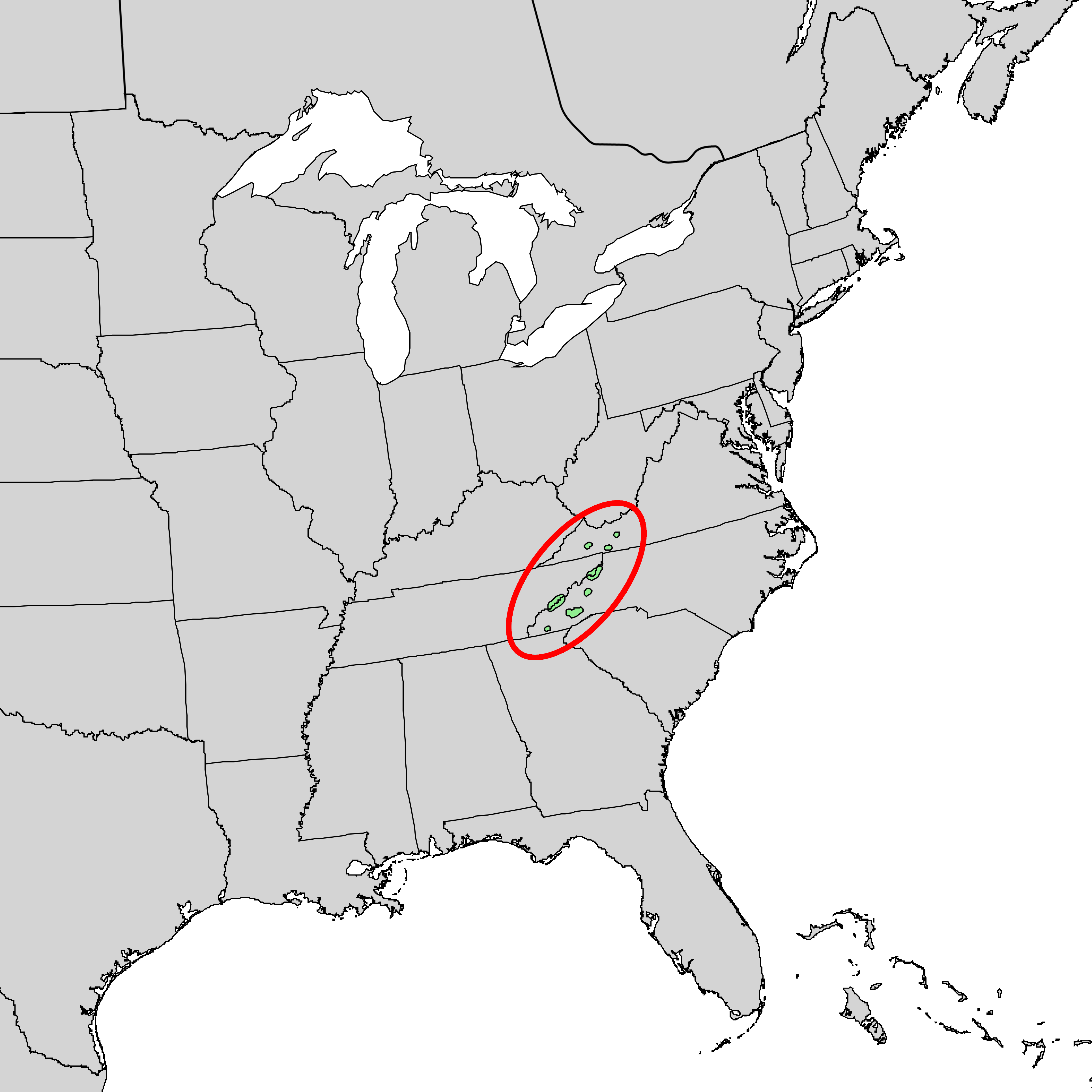 Natural distribution map for Abies fraser - Fraser fir